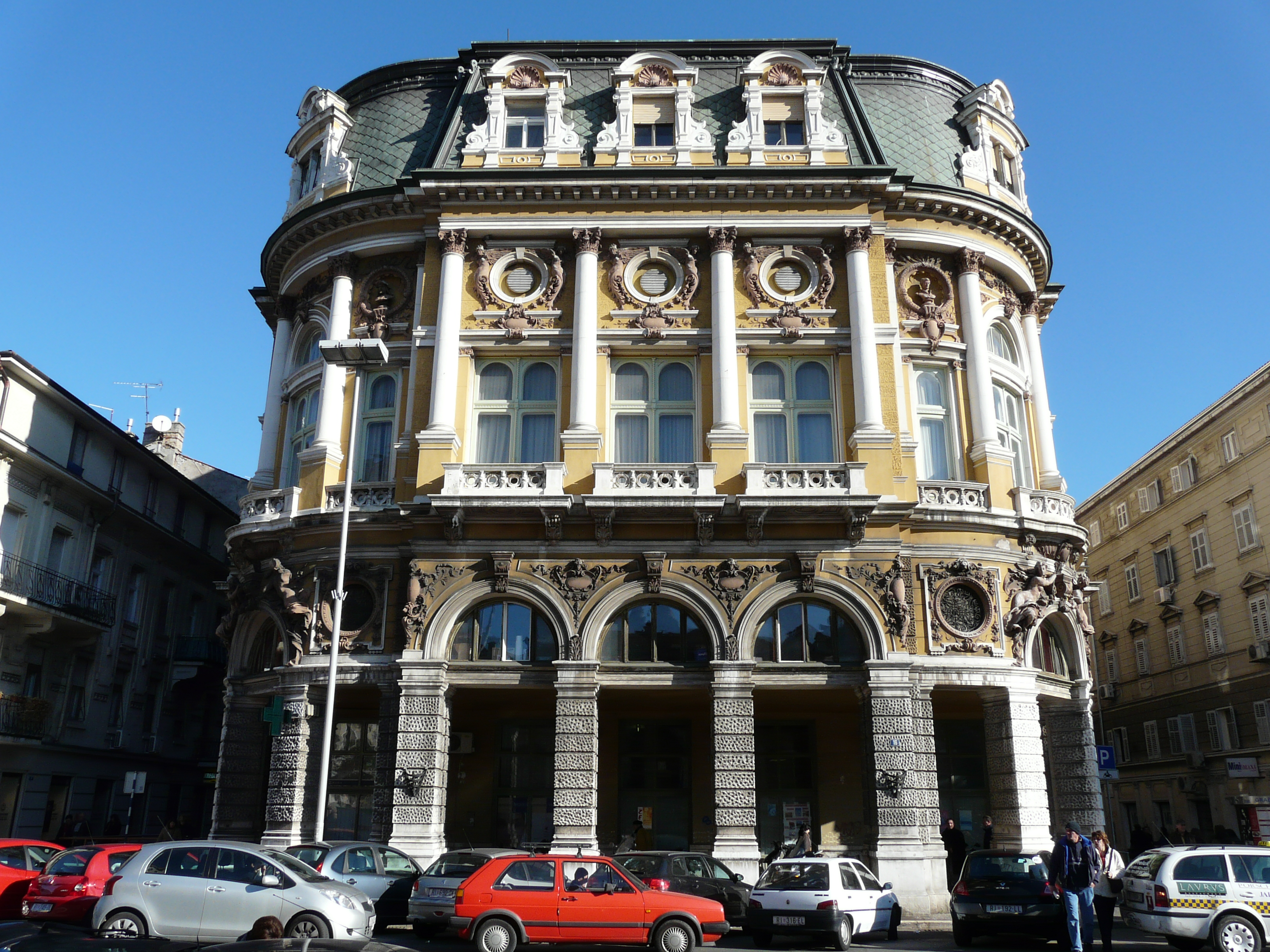 Palace Modello in Rijeka (City Library), Croatia.